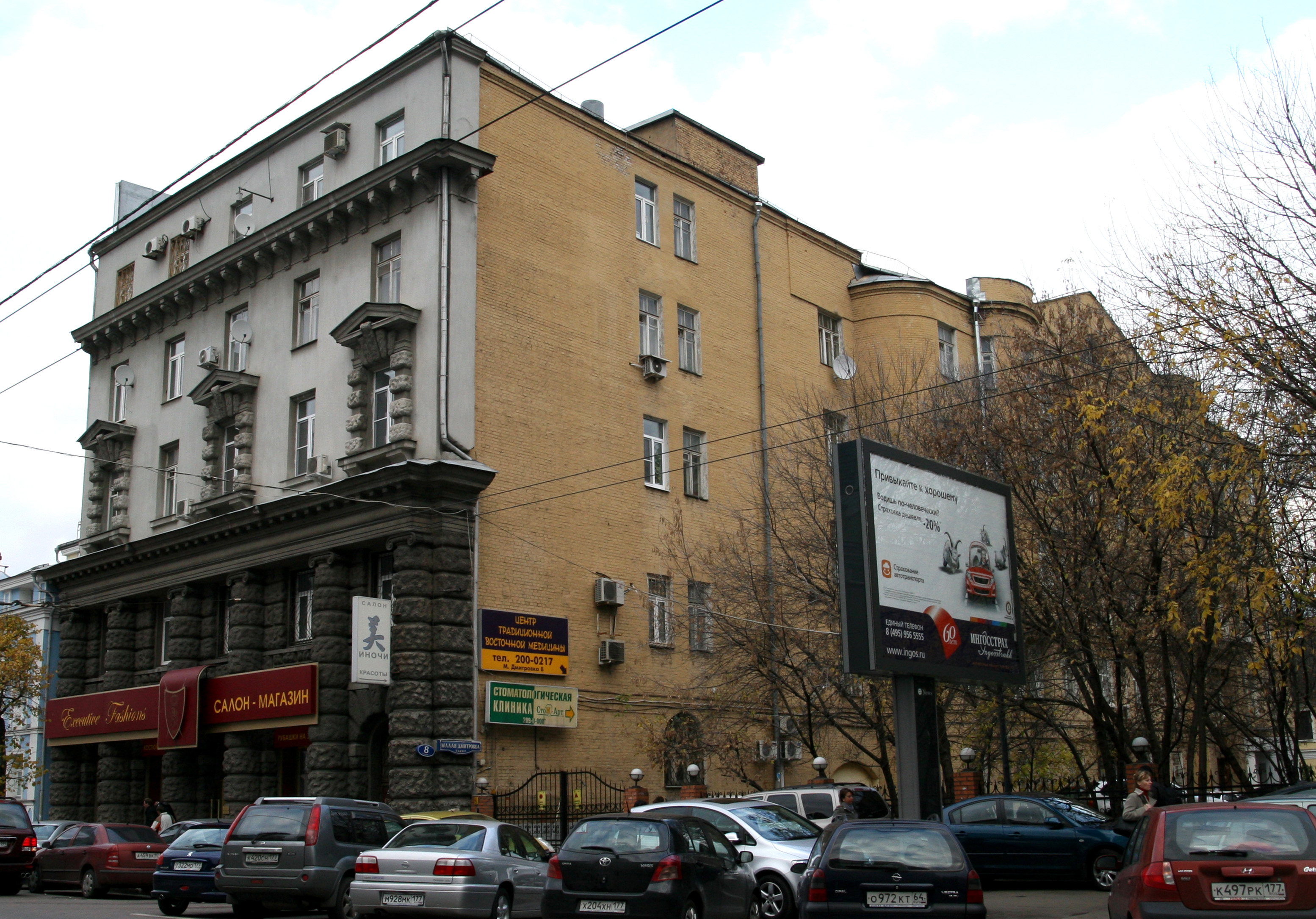 Moscow, Malaya Dmitrovka Street 8-1